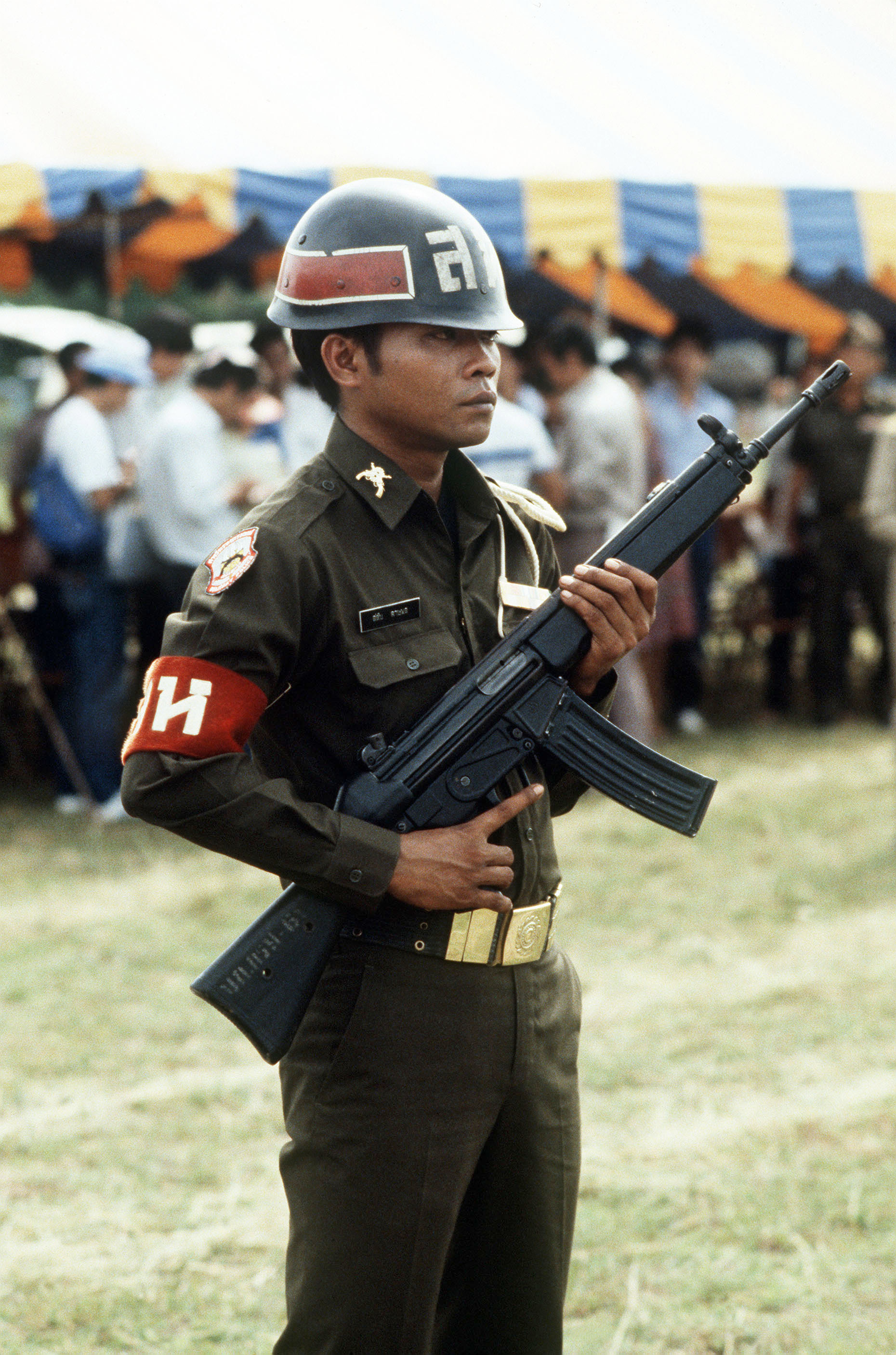 A member of the Thailand Military Security force stands guard during the opening ceremony for Operation MITRAPAB (Thai word for friendship), a parachute demonstration conducted annually for the last 22 years by the Thai military and the Joint United States Military Advisory Group (JUSMAG). Proceeds from the event are used to build schools in Thailand.